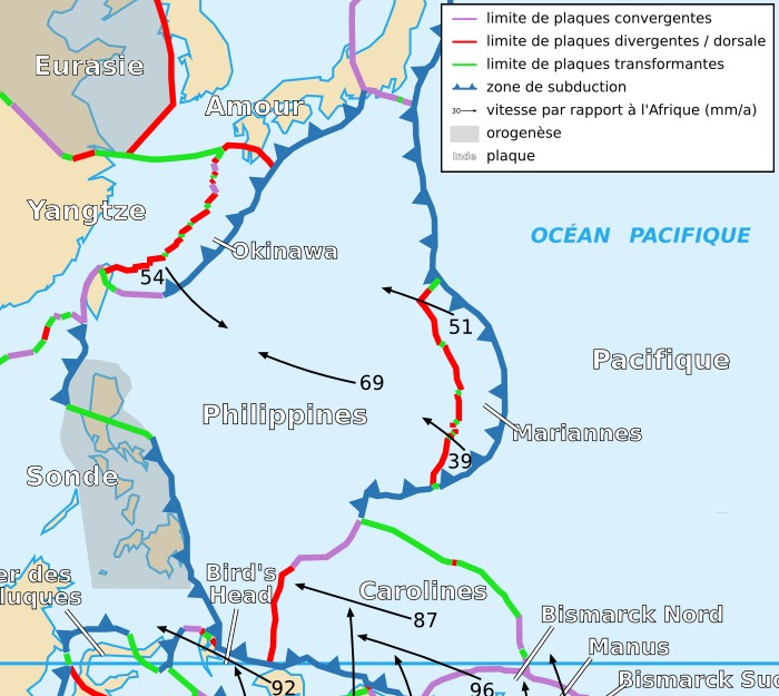 Map of the Philippine Plate